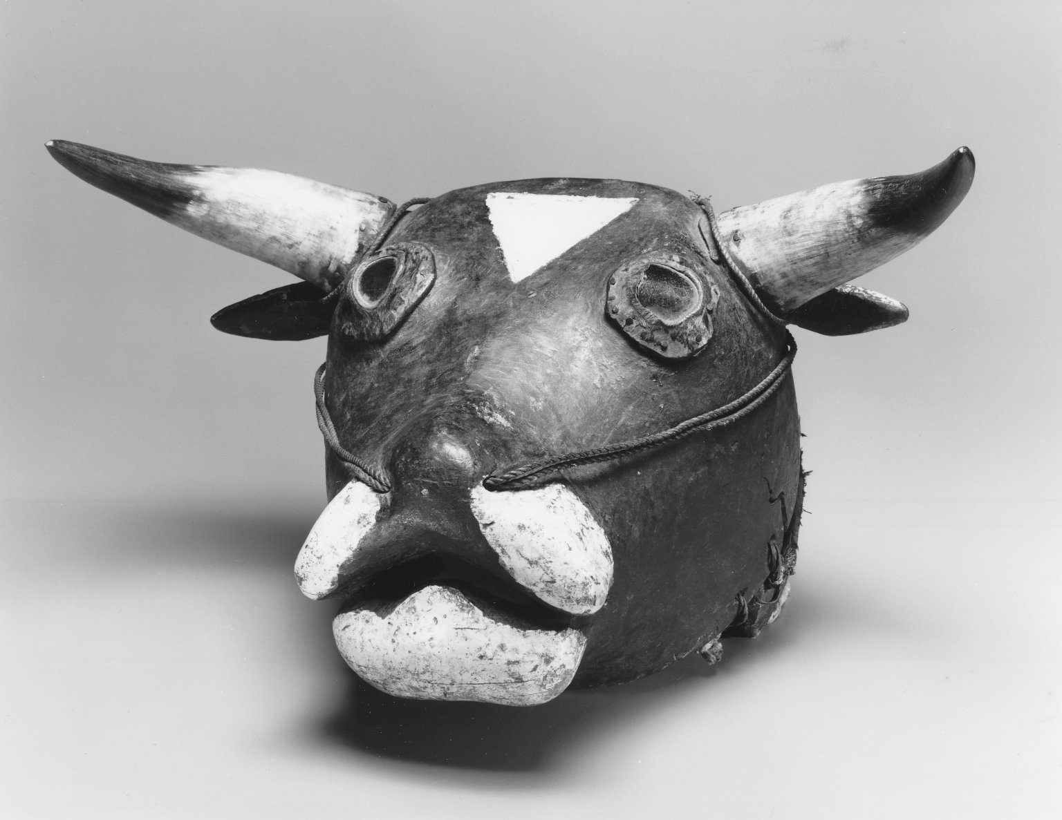 Wooden buffalo helmet mask in two pieces: head and neck attached by series of raffia ties which span holes around perimeter of each piece. Head: bone animal horns extend and curve out from sides of head; in back of head, below level of horns, a band projects out at sides with triangular tips painted white and red representing ears; large projecting glass eyes circumscribed by raised bands of fur nailed to surface; muzzle area and recessed triangle at center of forehead accentuated with white paint; string inserted through holes in nostrils wraps around to back of head. Neck: spiralling ridged surfaces. CONDITION: Generally good. Fur attachments around eyes worn. Deep cracks extending from perimeter at either side of head.